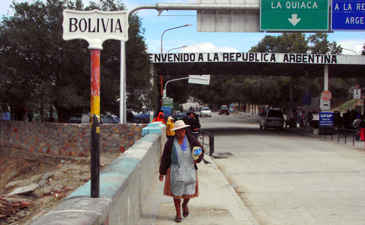 Borderline crossing station at Argentinan-Bolivian border, from the Bolivian side.